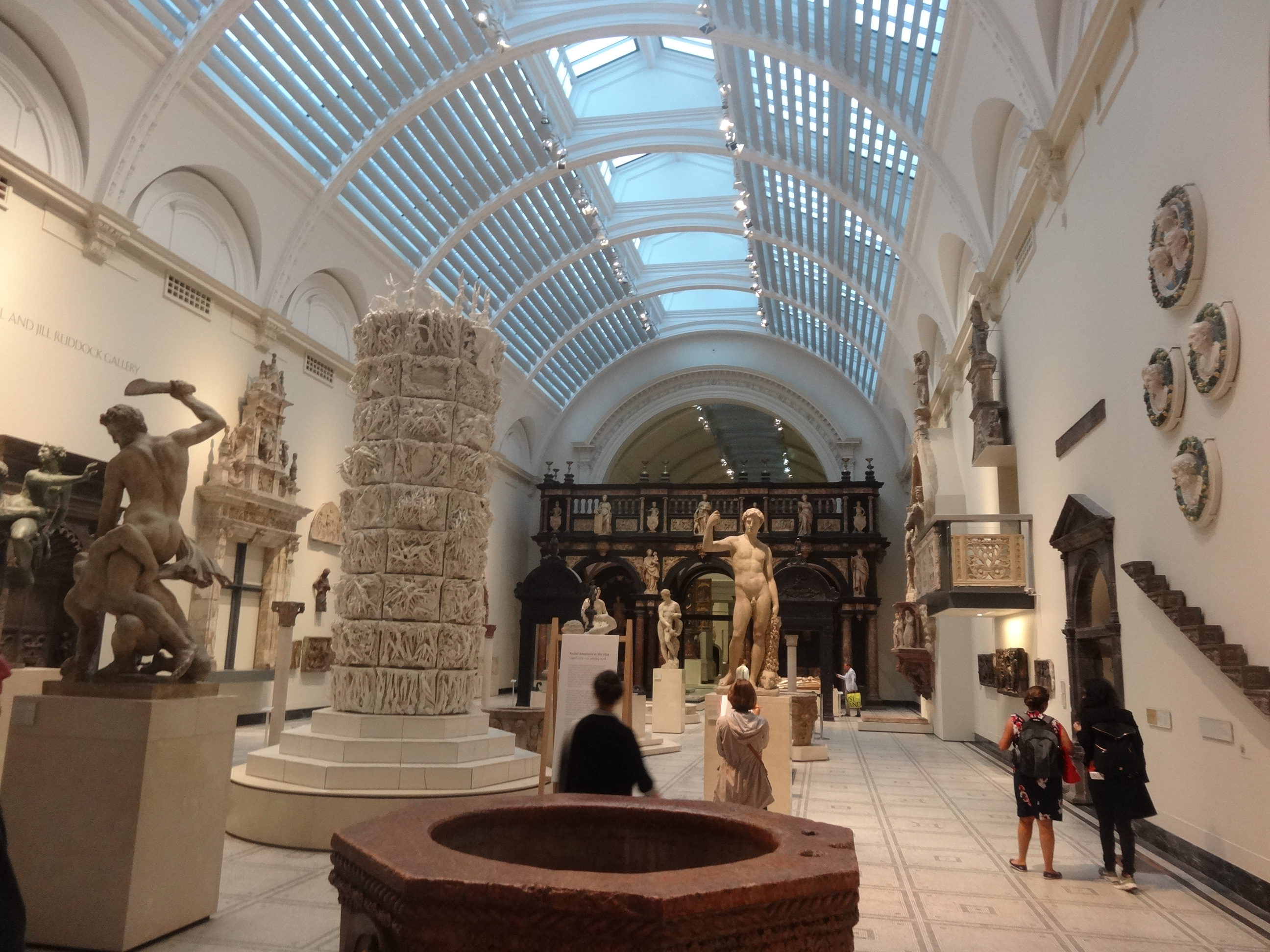 Victoria and Albert Museum